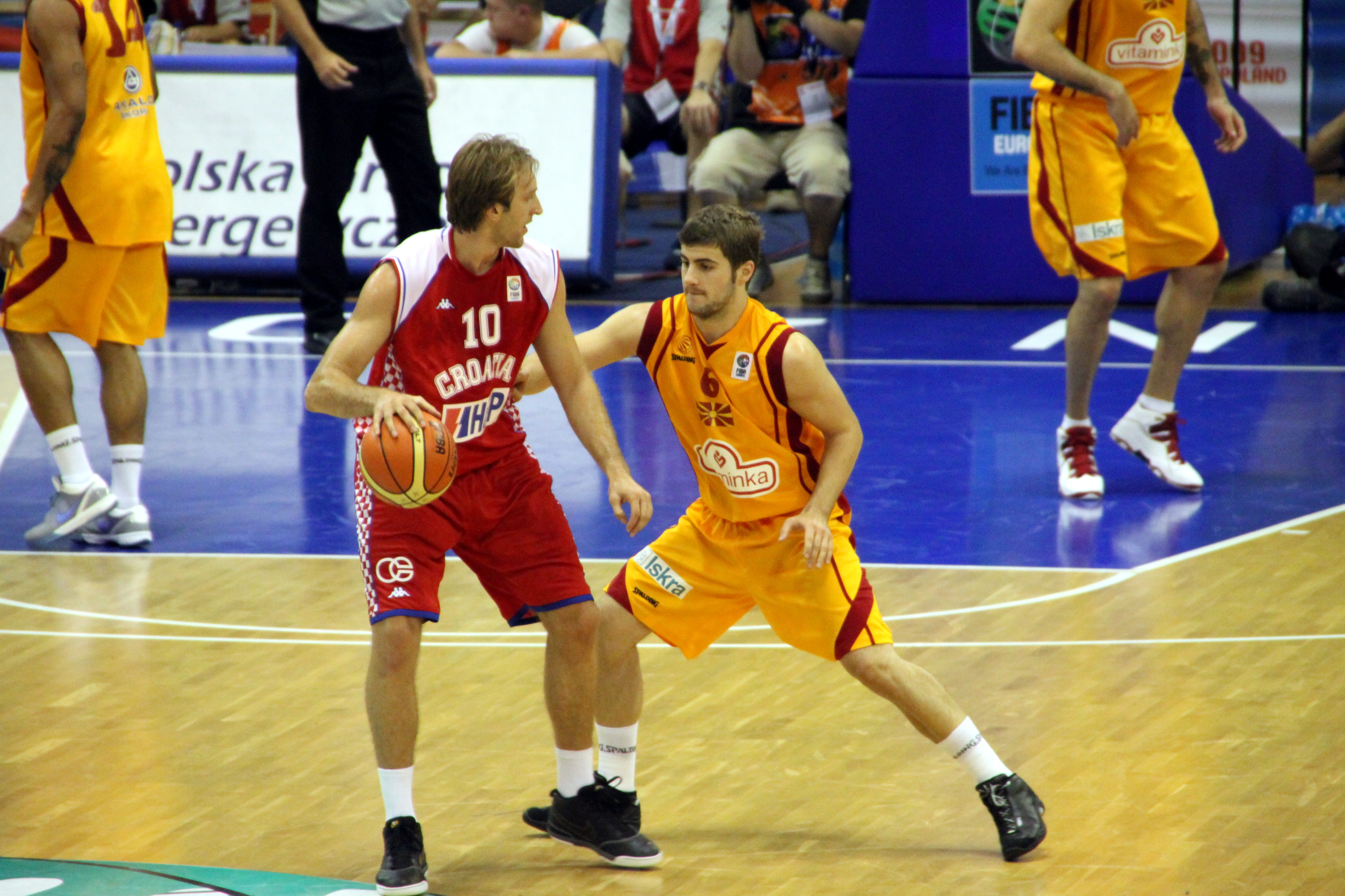 Zoran Planinic (Croatia) and Darko Sokolov (Macedonia). [Macedonia 71-81 Croatia, Eurobasket 2009, Poland] Macedonia 71-81 Croatia